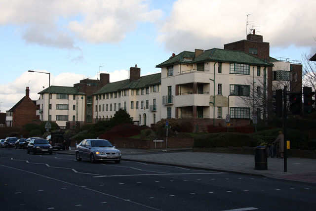 The Pantiles, Temple Fortune. More information at [1]